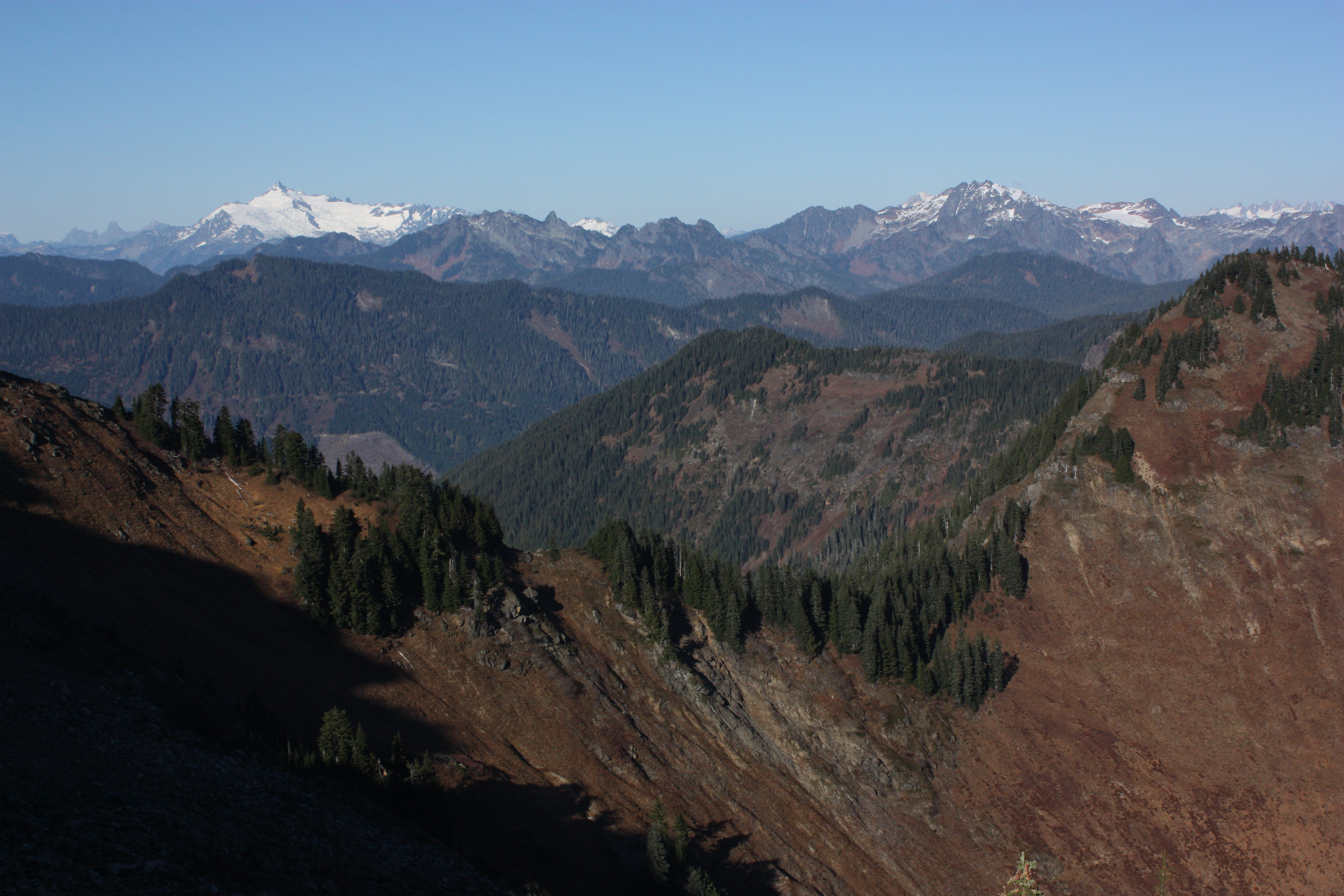 Mount Shuksan (left skyline) with Sulphide Glacer (left) and Crystal Glacier (right); Anderson Butte (in front of Crystal Glacier); Mount Watson (left center skyline middle distance); Canadian Border Peak and American Border Peak (skyline left of Shuksan); Bacon Peak (7061 feet, 2152 m, right skyline) with Mount Blum (7680 feet, 2341 m, left and behind) Viewpoint location: Sauk Mountain Trail #613, Mount Baker-Snoqualmie National Forest Viewpoint elevation: 1621 meter (5317 ft) View direction: 8° Location source: Garmin GPSmap 60CSx Location Datum: WGS84